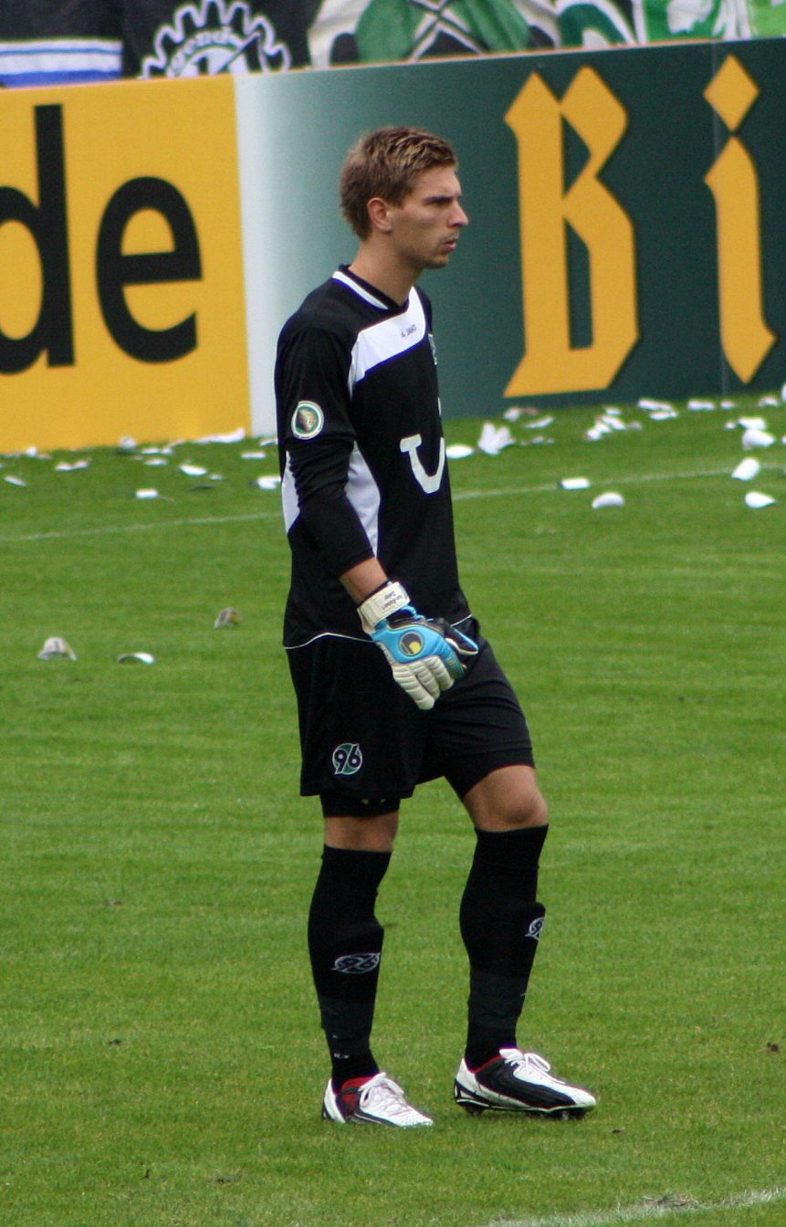 Ron-Robert Zieler in 2011 ehile playing for Hannover 96 vs Anker Wismar